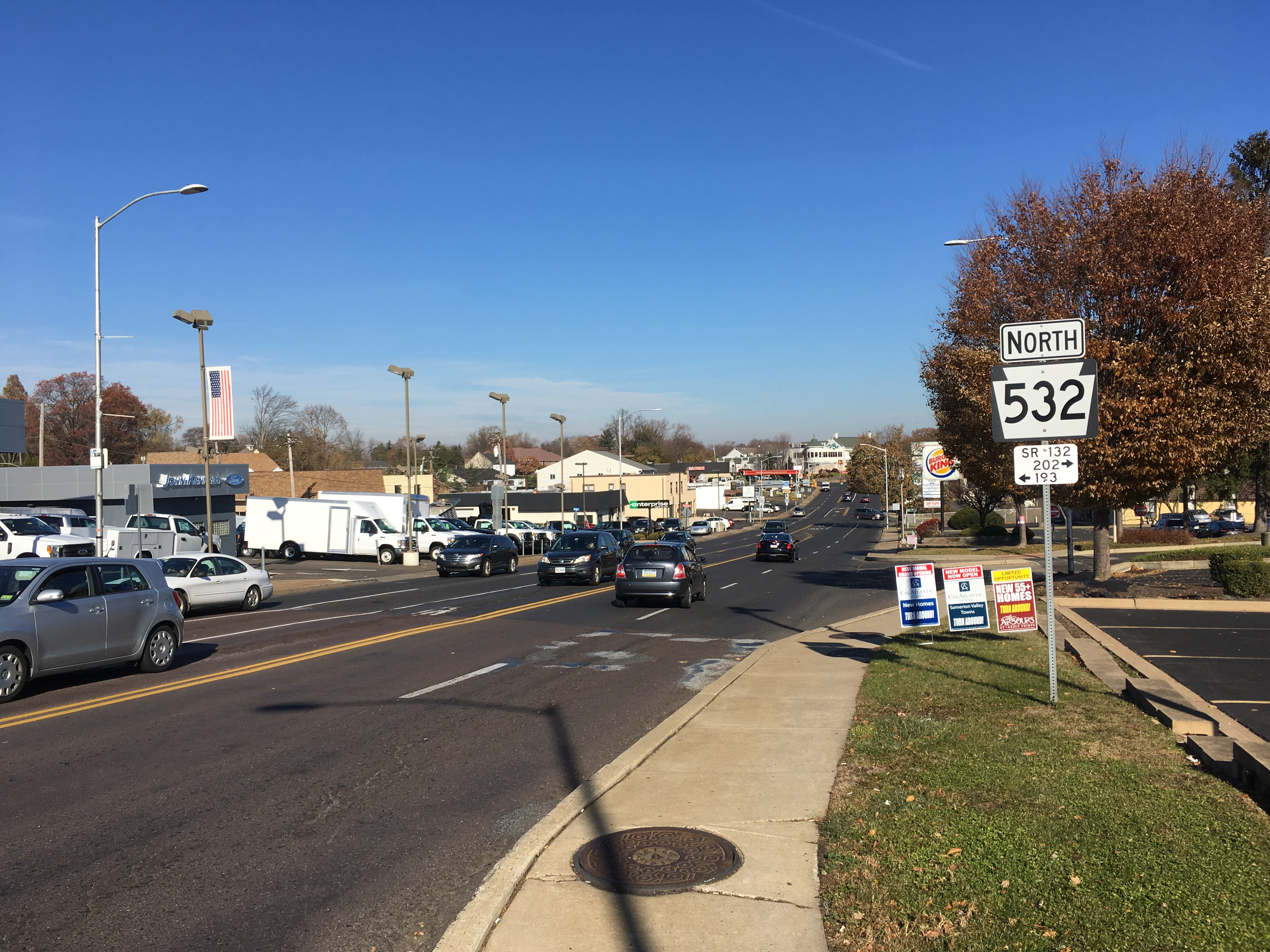 Northbound Pennsylvania Route 532 (Bustleton Pike) past the intersection with Pennsylvania Route 132 (Street Road) in Feasterville, Pennsylvania